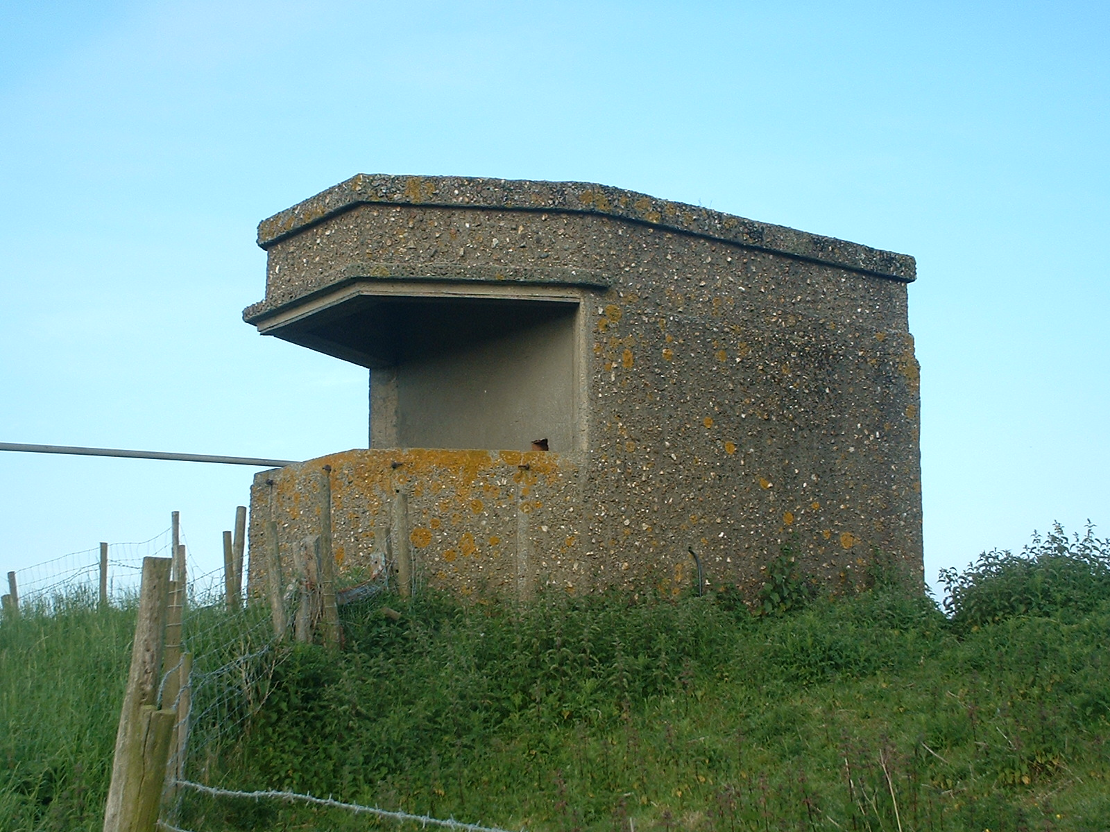 Coast Seachlight, Freiston Shore, OS TF395420 The building seems to have been used as a pumping house or similar at some point and is partially bricked up. OS reference TF395420